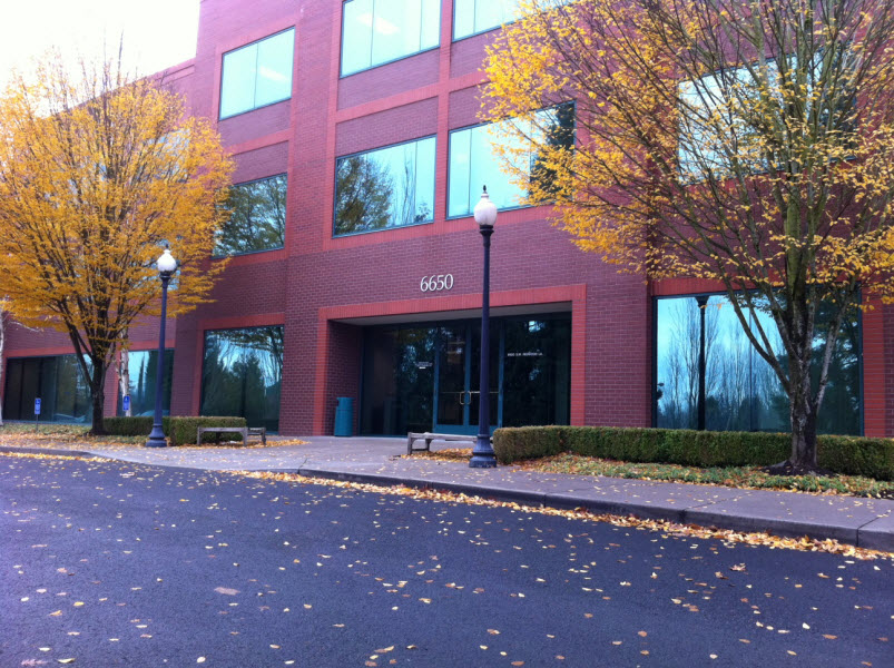 NuScale's headquarters in Portland